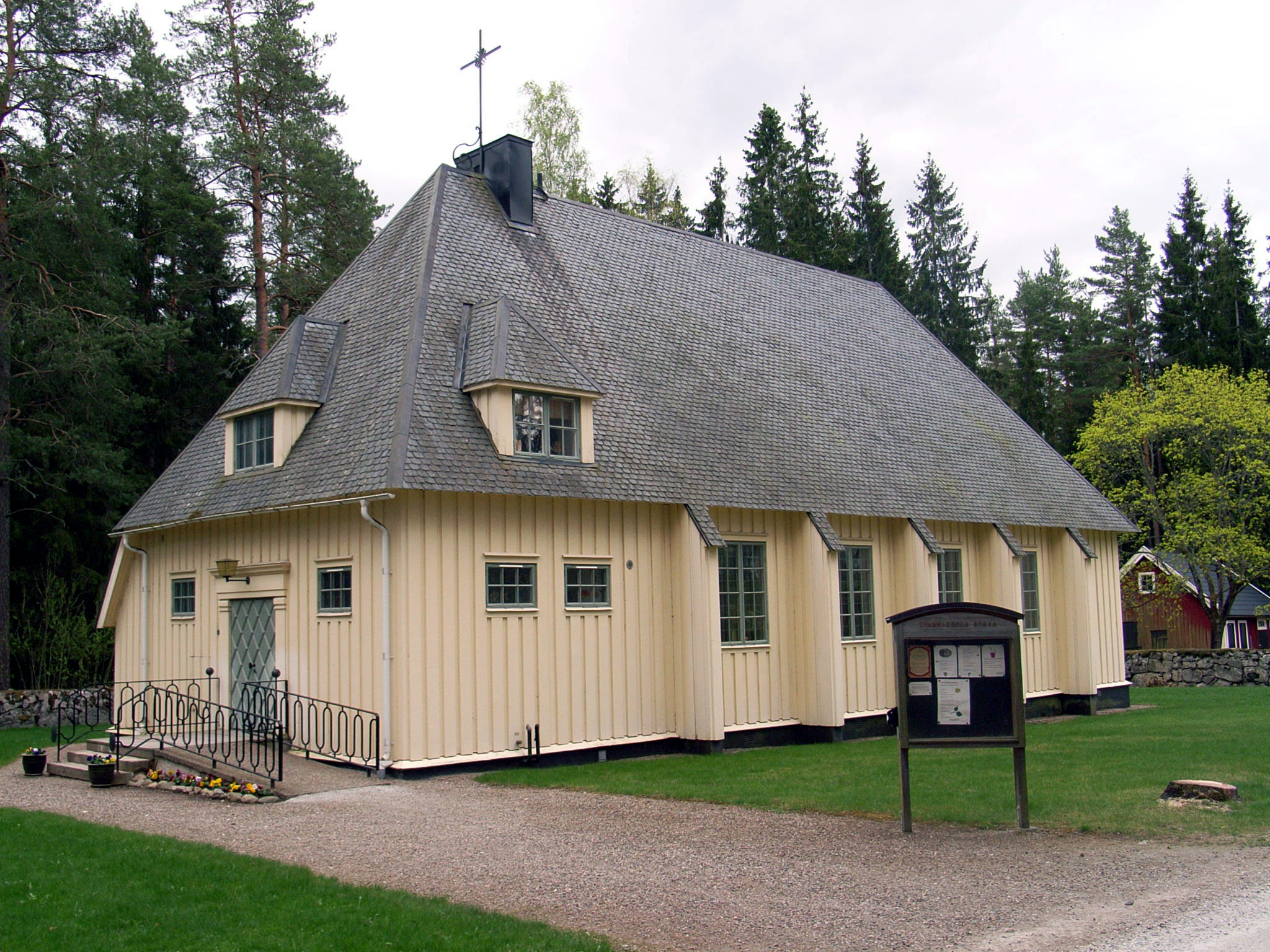 Spannarboda kyrka